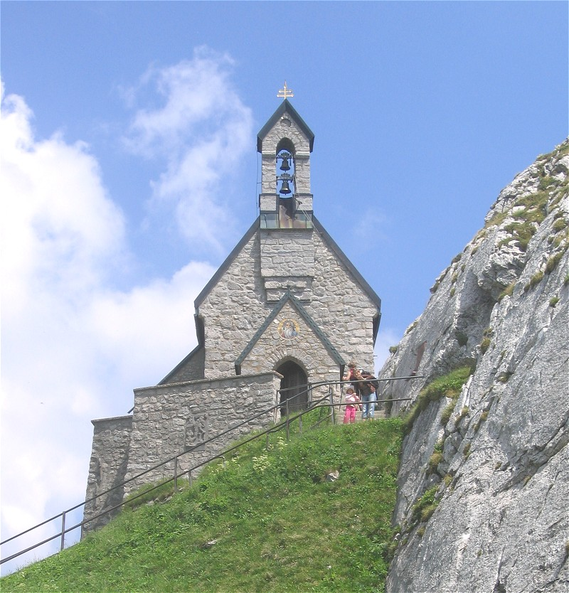 Church at the summit of the Wendelstein mountain, Bavaria, Germany.